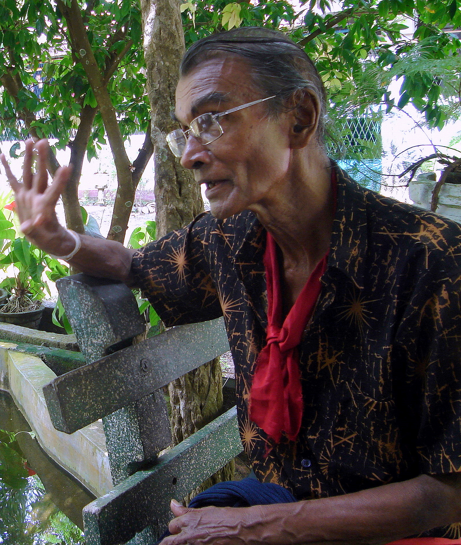 Gamini Haththotuwegama before a public performance at Malamulla Sri Sudarshanarama temple, Kiriberiya, Panadura, SRI LANKA